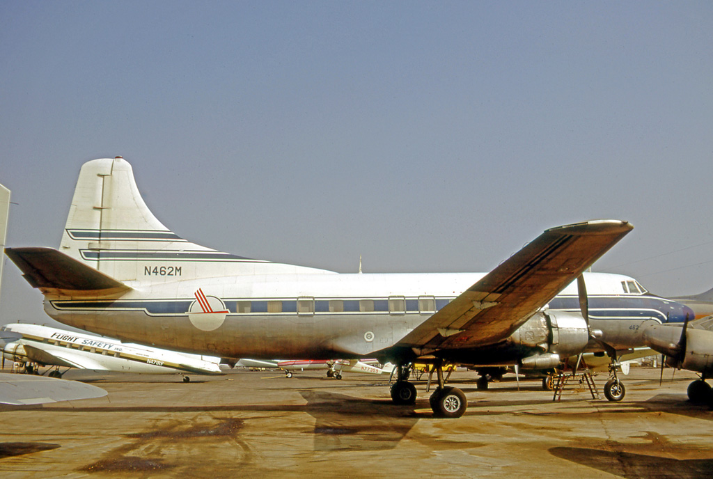 Martin 404 N462M of Piedmont Airlines in 1970